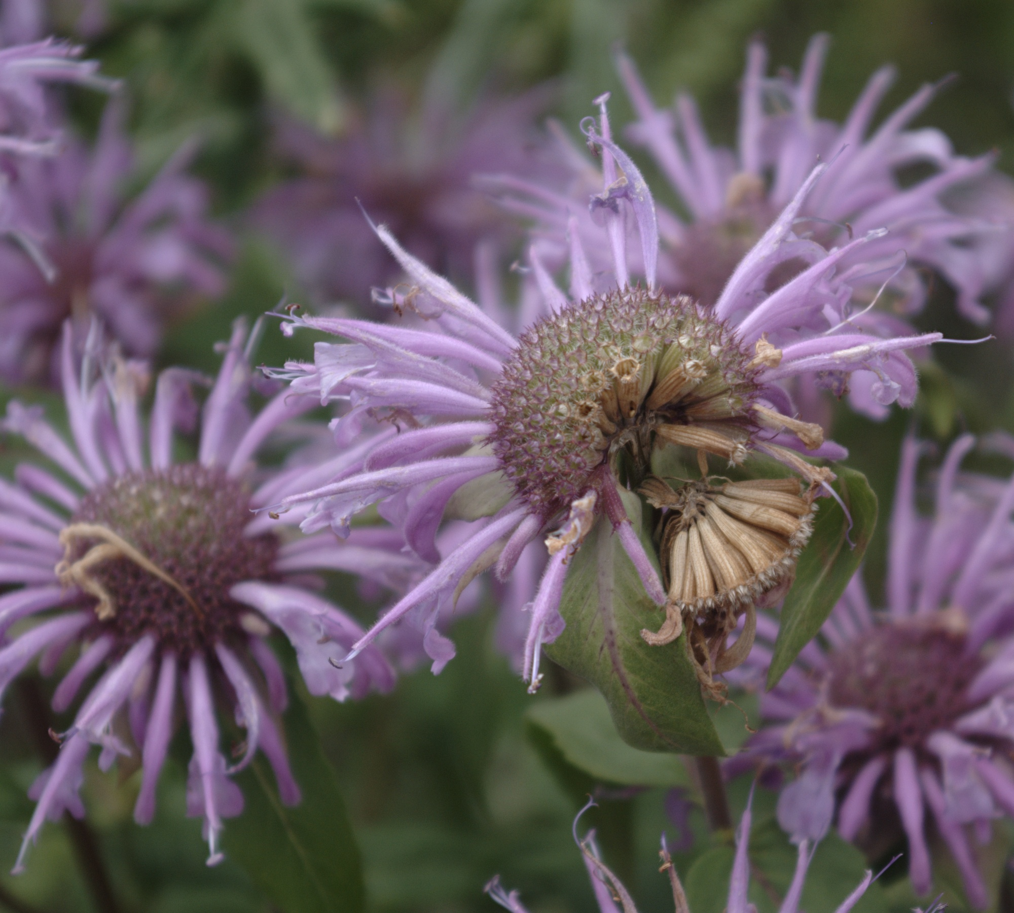 Flower heads of Monarda fistulosa ssp. fistulosa var. menthifolia, (mintleaf) wild bergamot. Apache Springs Trail, Bandelier National Monument, New Mexico.